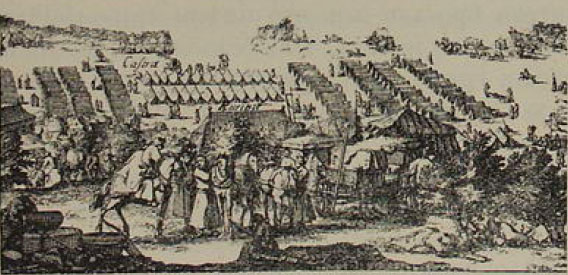 Laher Smalenskaj Šlachty